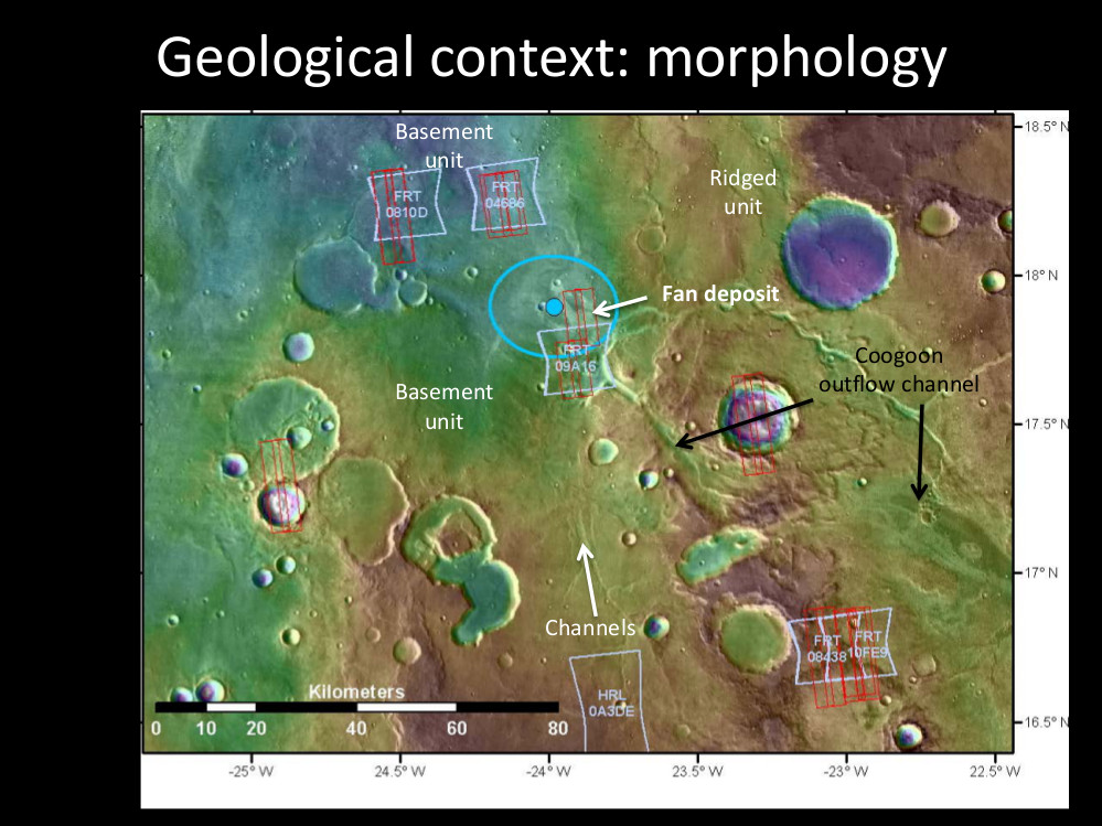 Oxia Planum - Geological Context - Morphology May 14, 2014 JPG Image From Original PDF Document via GIMP v2.8.14 Program.